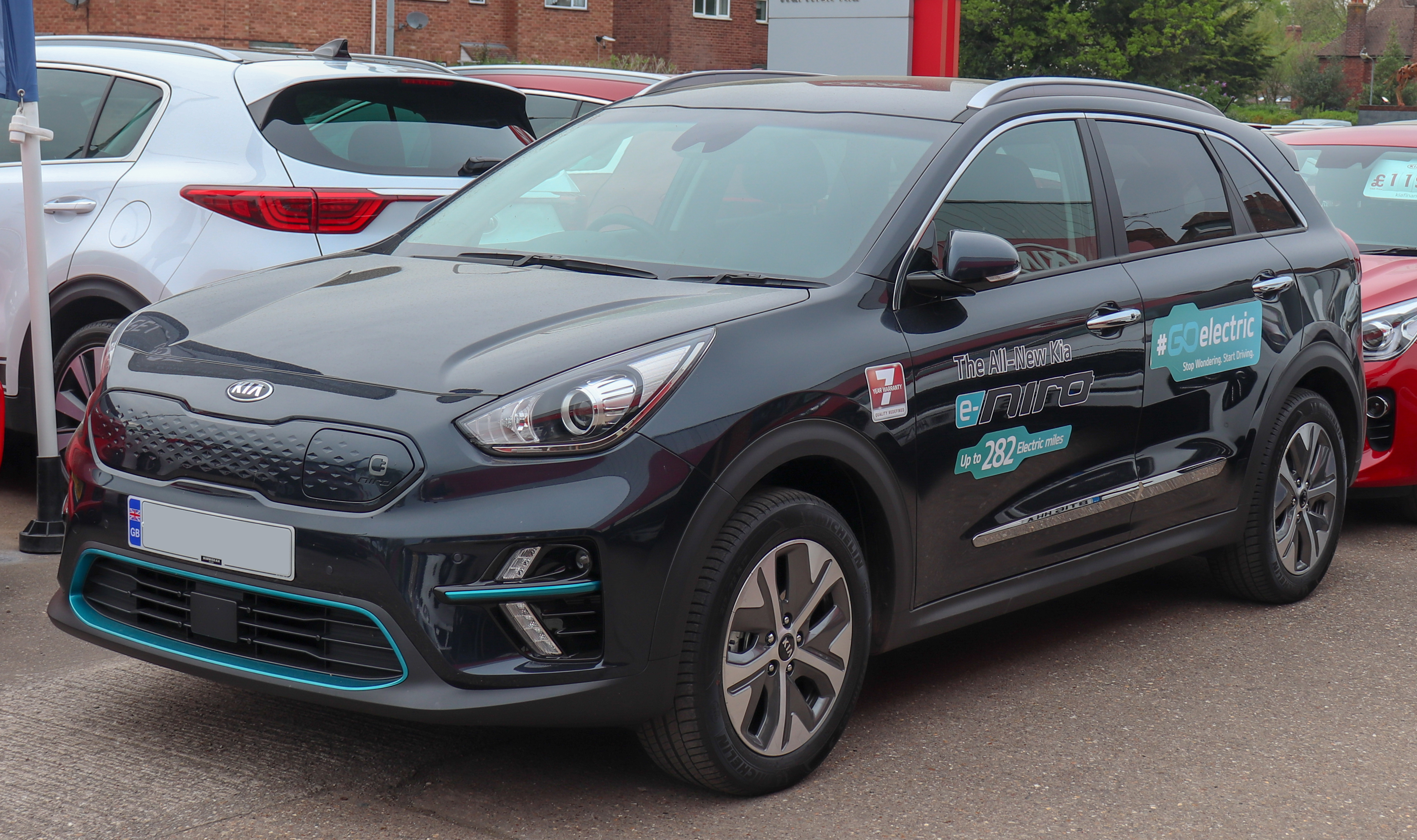 2019 Kia Niro EV First Edition Taken in Warwick